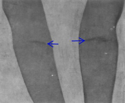 Pastia's sign